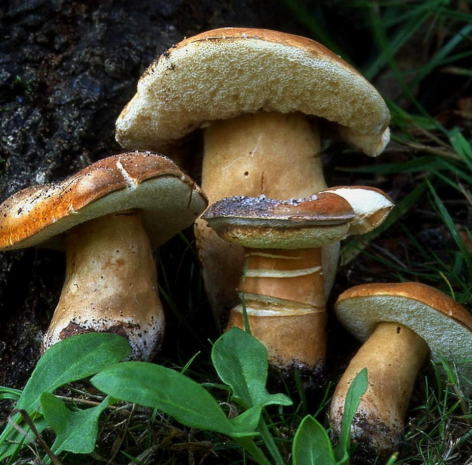 The source of this image is the photographer Frank Gardiner aka Zonda Grattus, who is the sole owner and copyright holder of this photograph and agrees to publish it under the Own Work, Creative Commons Attribution 3.0 License.